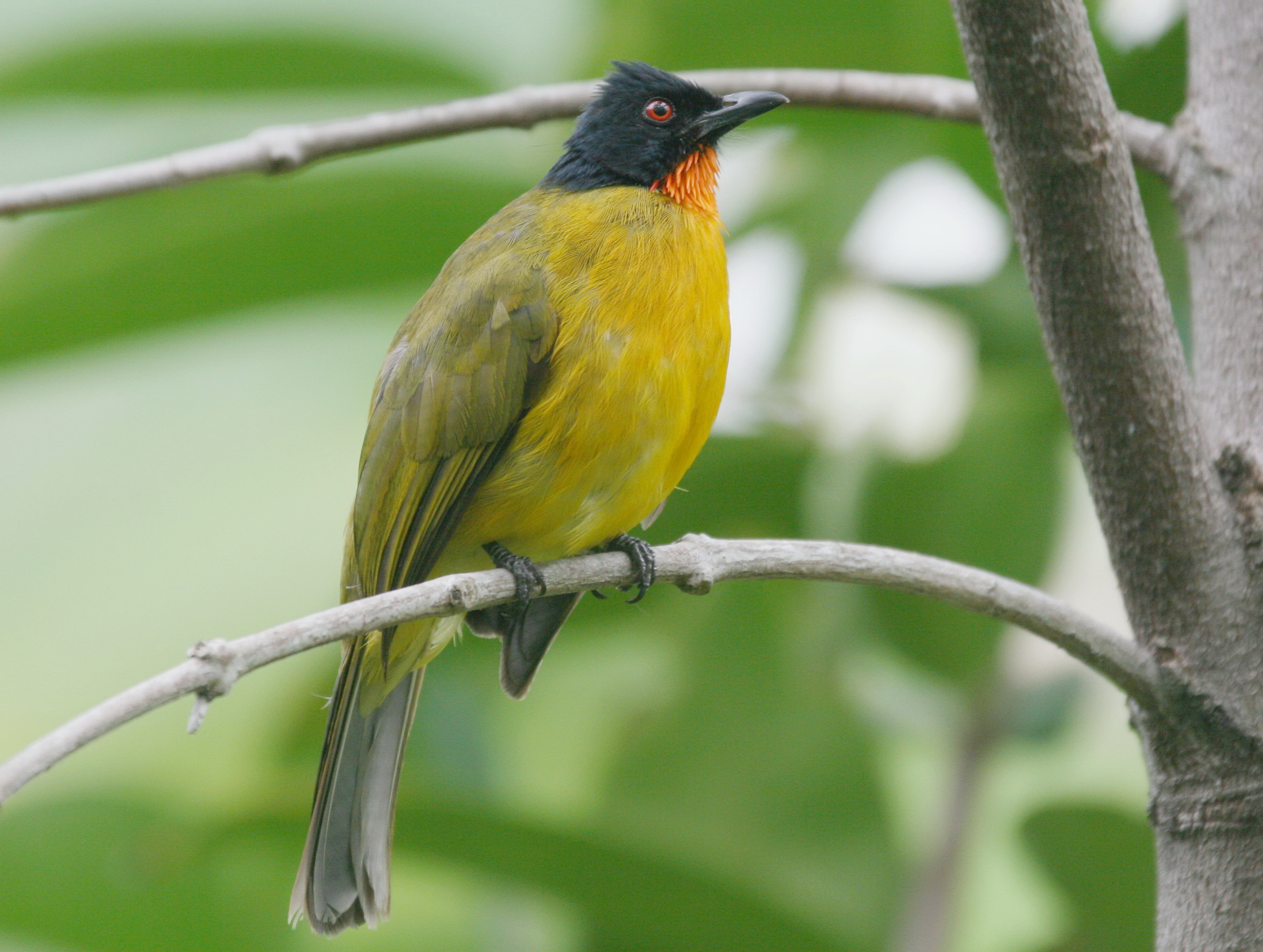 Ruby-throated Bulbul Pycnonotus dispar at Miami Metrozoo, Florida, USA.